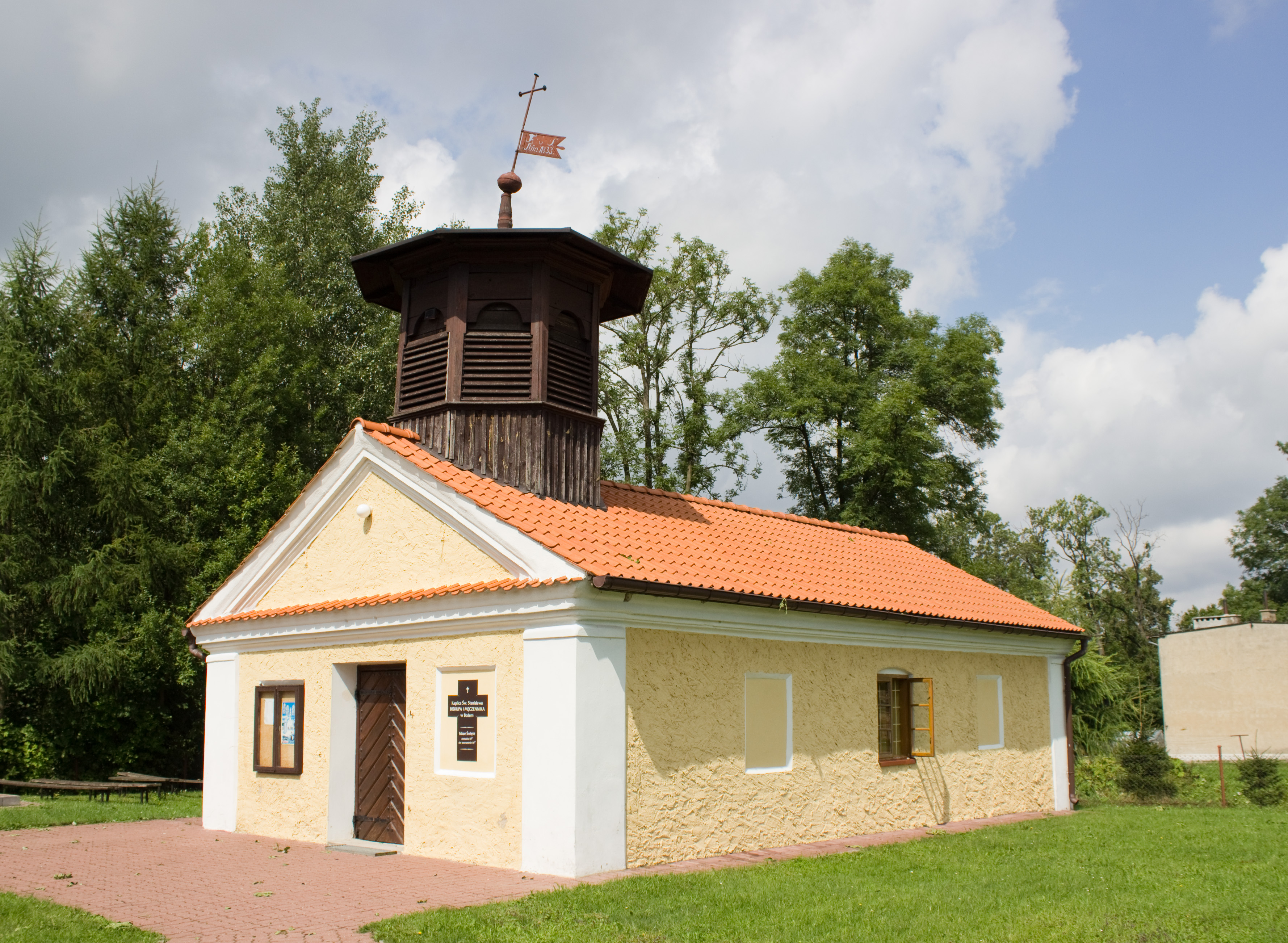 Chapel, Boże, gmina Mrągowo, powiat mrągowski, Warmian-Masurian Voivodeship